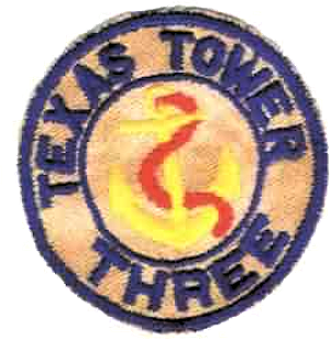 Patch of the USAF Texas Tower 2 offshore radar station